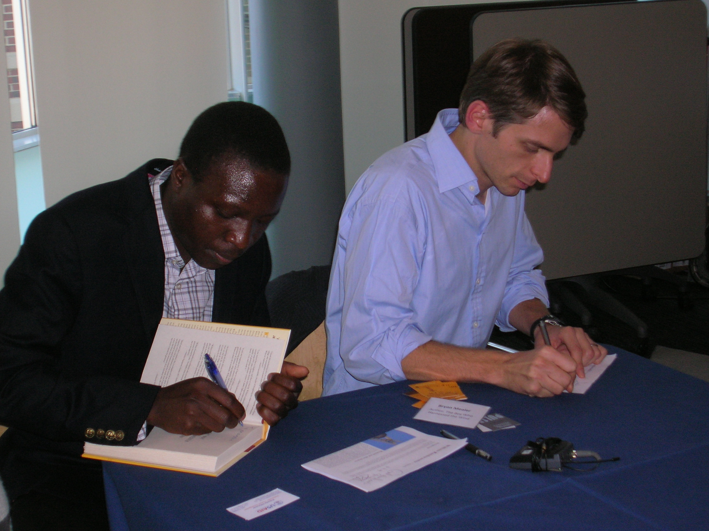 A picture of William Kamkwamba and Bryan Mealer at a book-signing for The Boy Who Harnessed the Wind at Georgetown University.